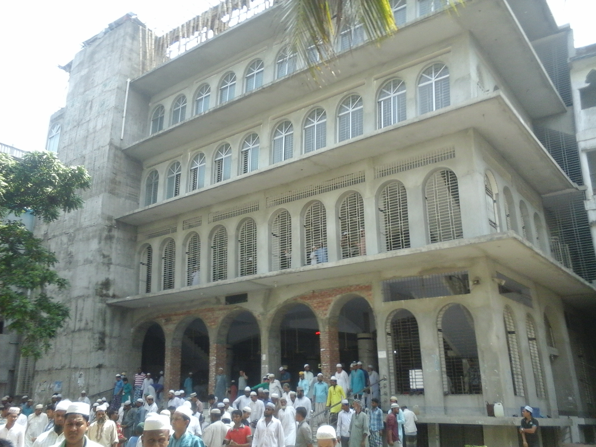 faridabad Madrasha the 1st of largest Islamic educational institutions in Bangladesh, this Madrasha is located at old Dhaka Gandaria